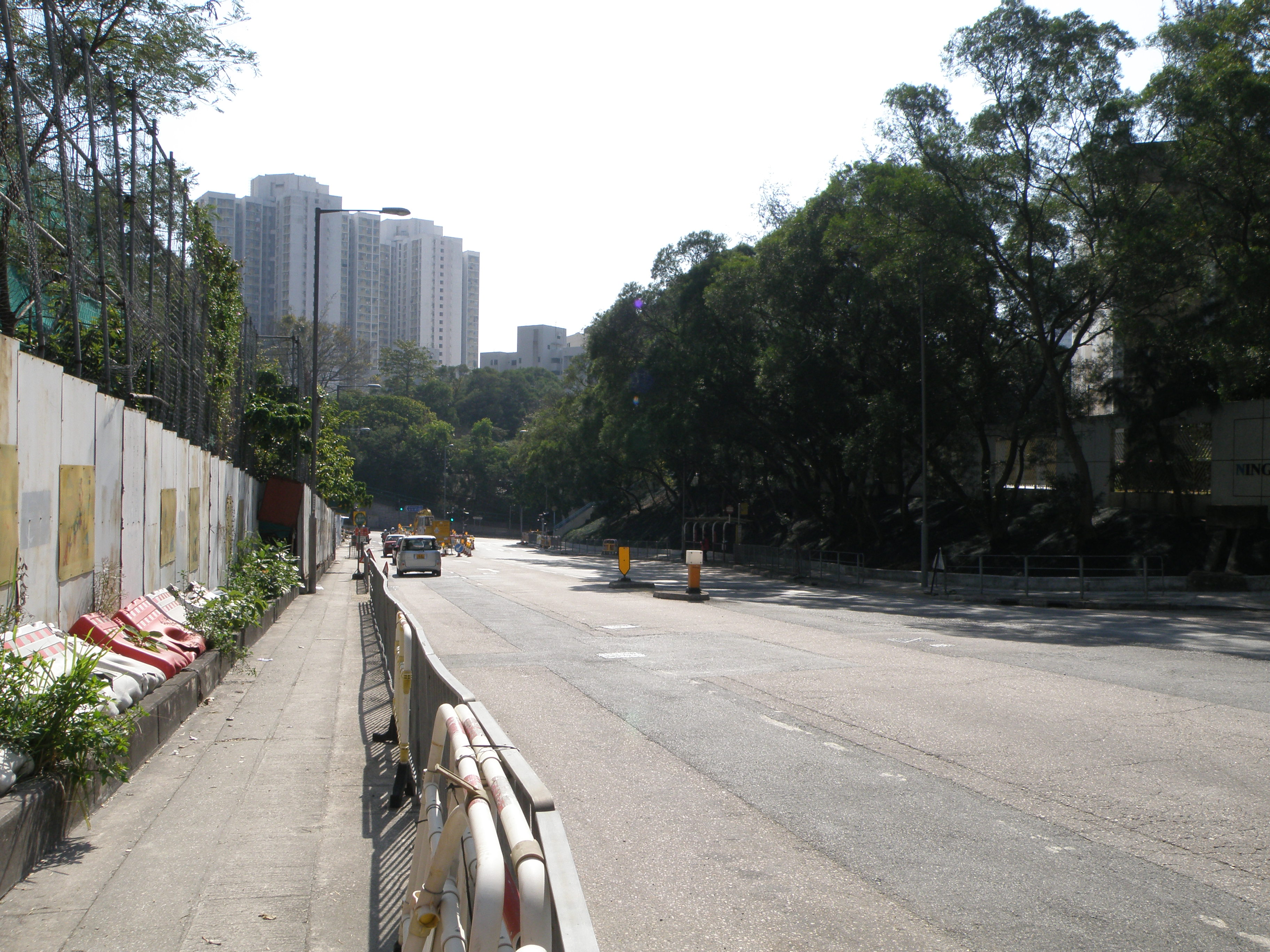 Shun On Road in Sau Mau Ping, Hong Kong.